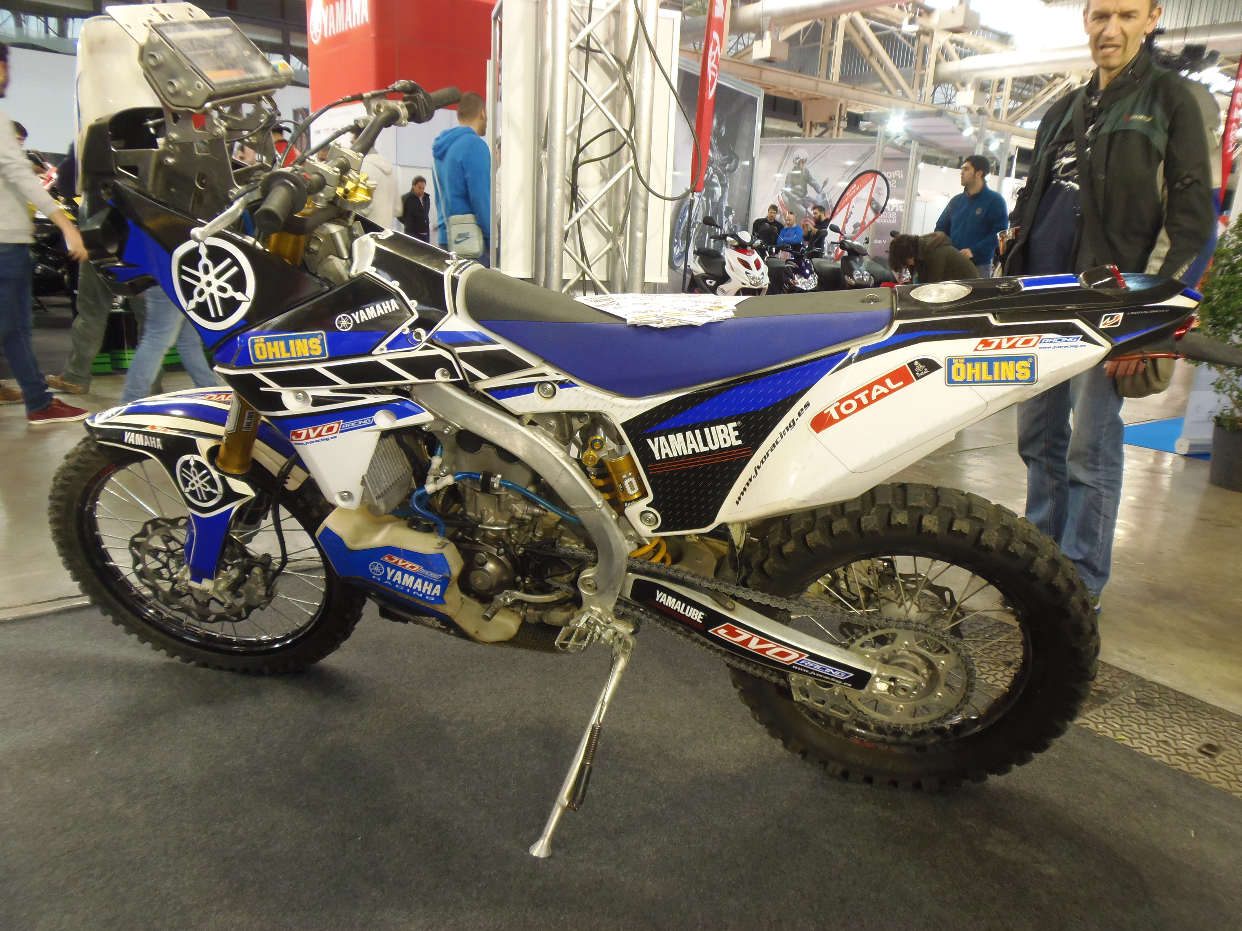 Yamaha YZ450F JVO racing. Ridden by Joan Pedrero & Marc Guasch at Dakar Rally 2015.